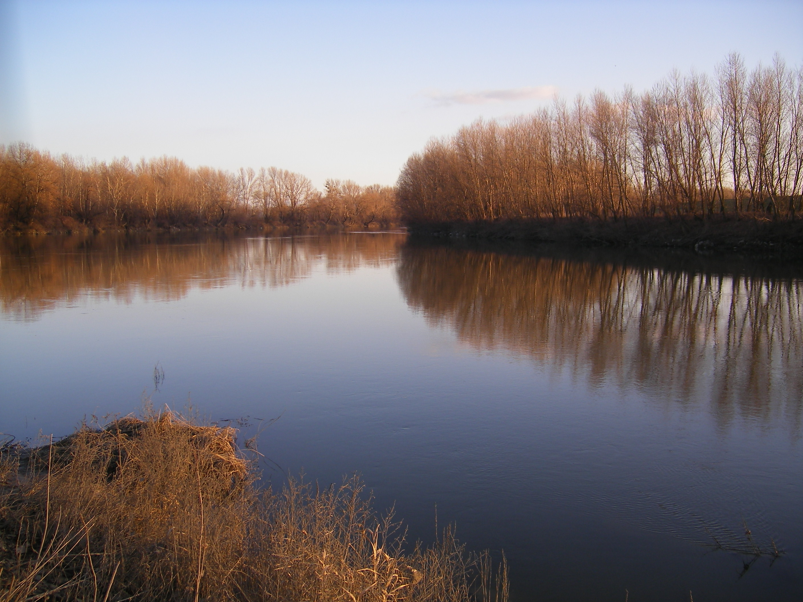 connfluence of Váh and Little Danube near Gúta (Kolárovo)